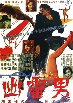 Japanese movie poster for 1954 Japanese film Ghost Man (幽霊男, Yurei Otoko)